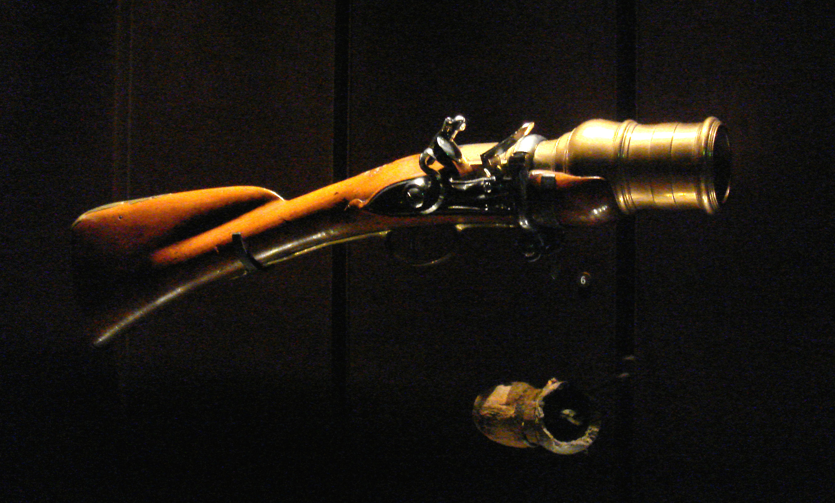 Grenade_launcher_with_grenade_Manufacture_de_Saint_Etienne_France_1760.